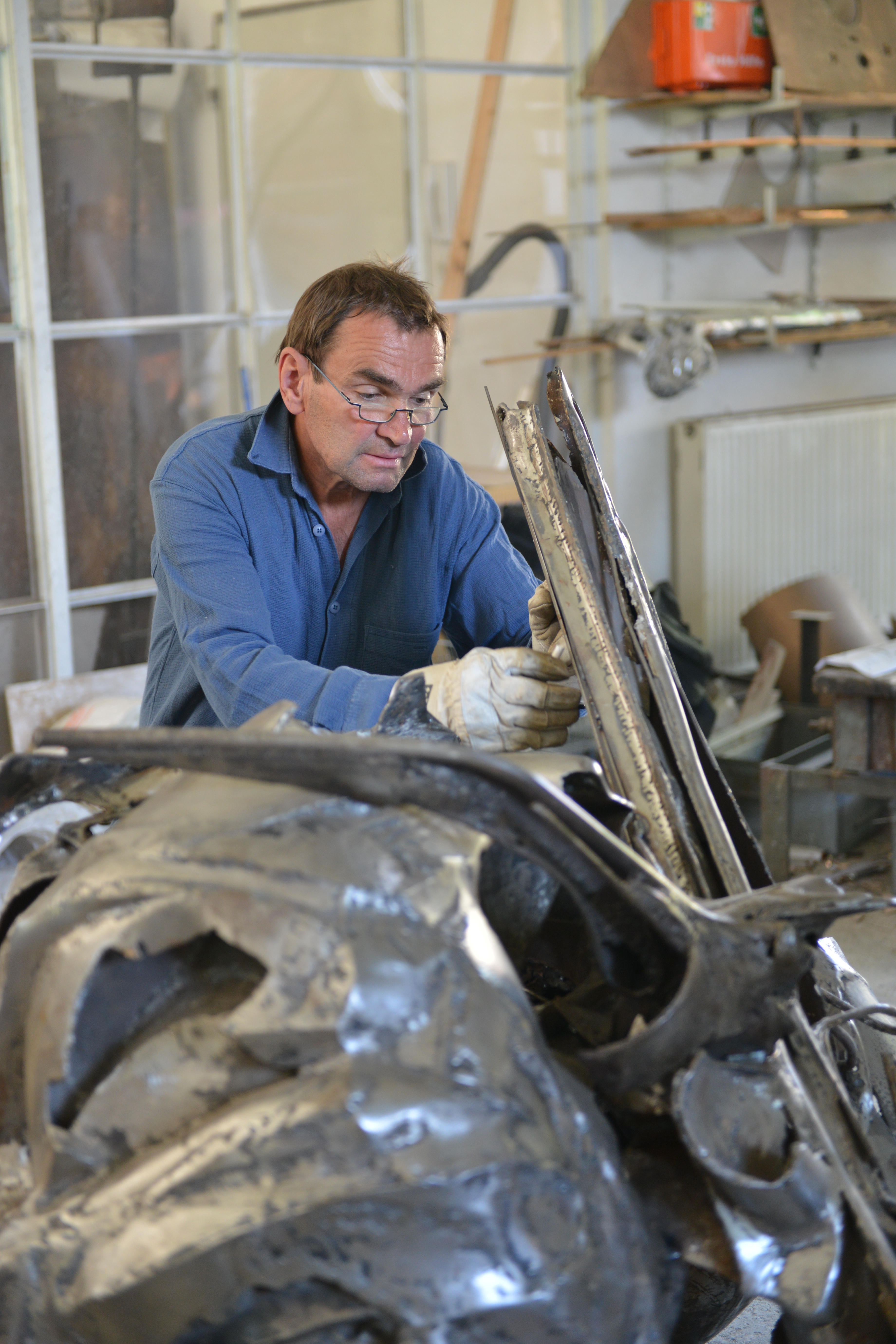 Volker Bartsch, german sculptor and painter in his Studio, 2013